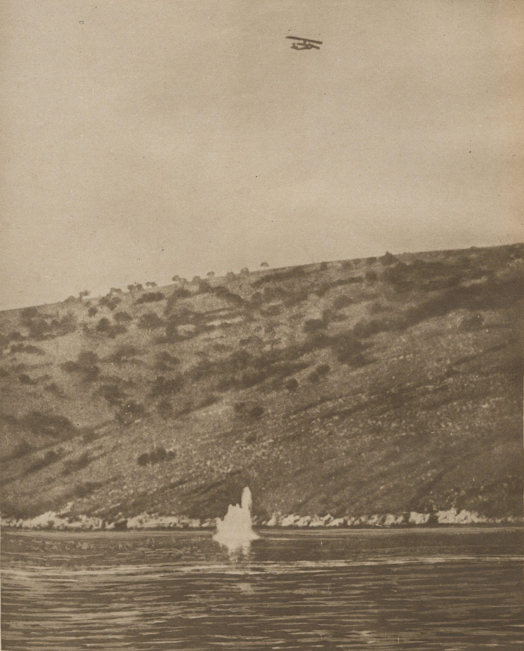 French plane throwing a grenade on a submarine submerged spotted with her ​​wake in the Adriatic Sea, off the port of Durazzo. Photograph published by French weekly Le Miroir, September 9, 1917.